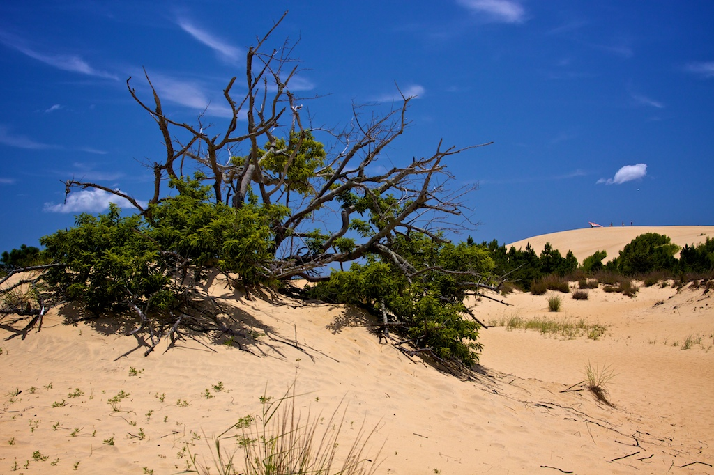 photograph of some brush growing on one of the sand dunes of Jockey's Ridge State Park on the Outer Banks of North Carolina.